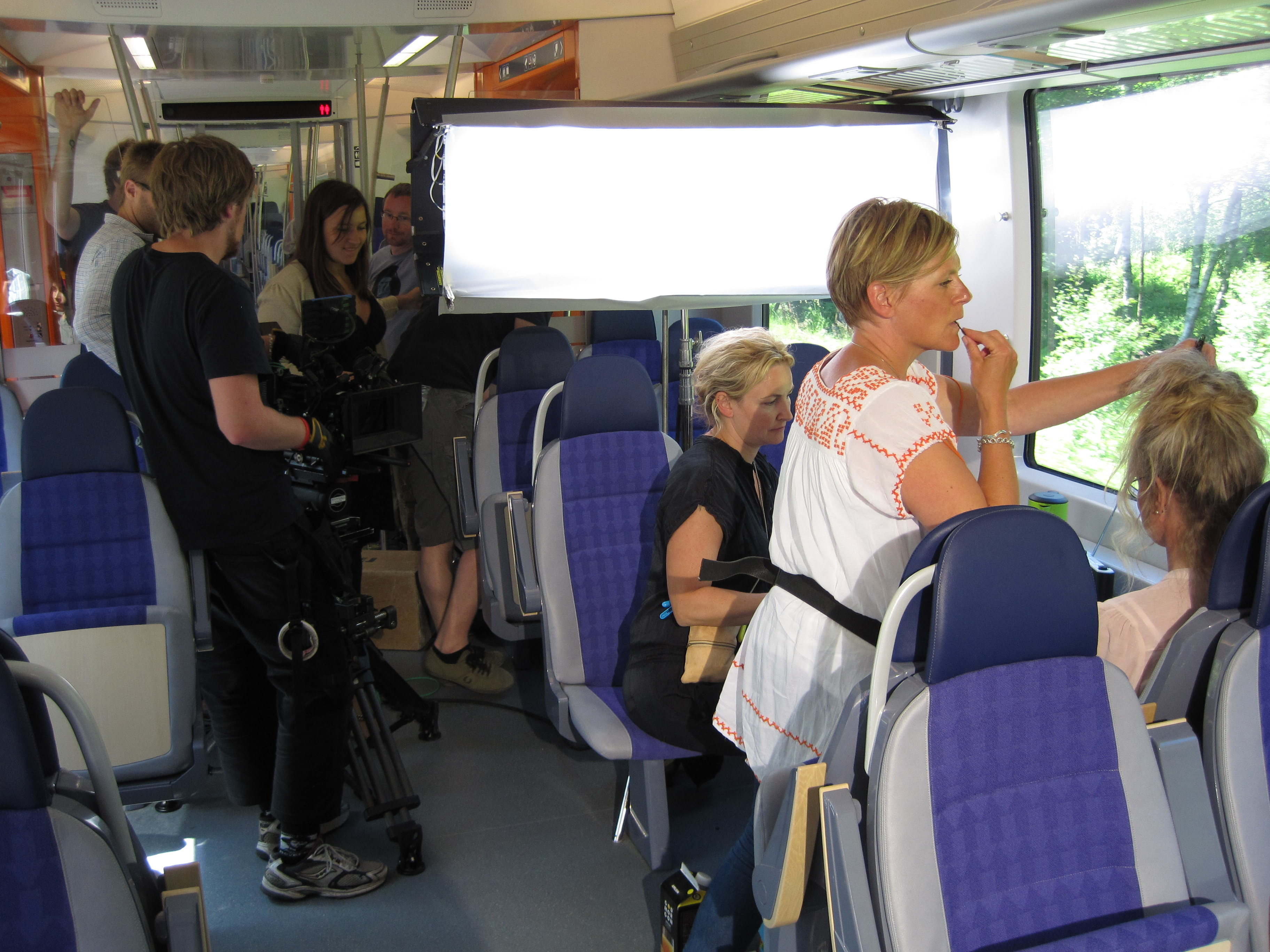 From the filming of a television advertisement for Pågatågen" (the commuter trains in Skåne, Sweden).